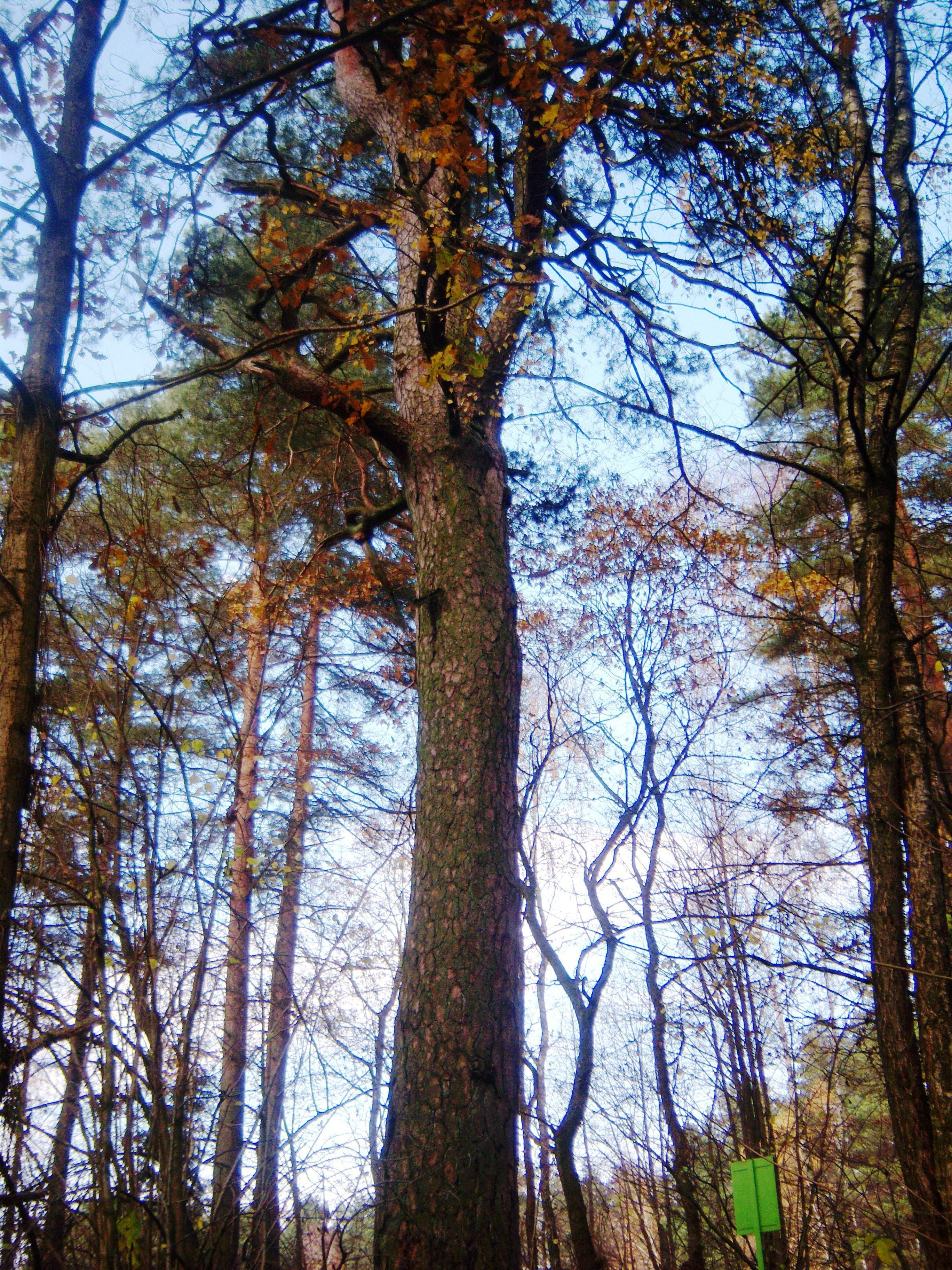 Boros Forest pine tree, Kaišiadorys District, Lithuania